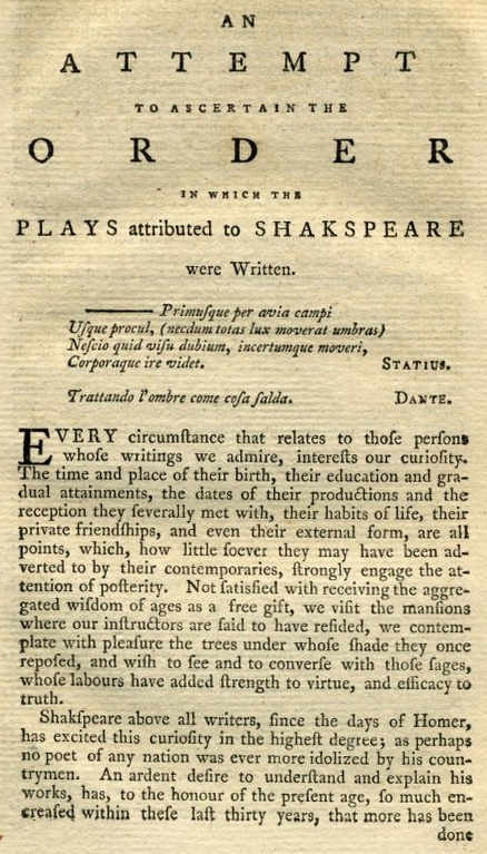 Title page of Edmond Malone's "An attempt to ascertain the order in which the plays attributed to Shakespeare were written."The Plays of William Shakespeare in Ten Volumes, Samuel Johnson and George Steevens, eds. (1778), 2nd ed., vol I, pp. 269-346.